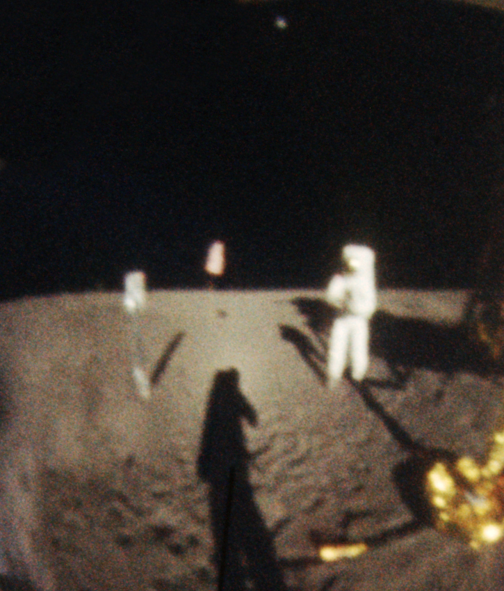 Heiligenschein around head of Buzz Aldrin's shadow due to extreme retroreflective properties of lunar regolith. The white figure to the right is the photographer, Neil Armstrong.